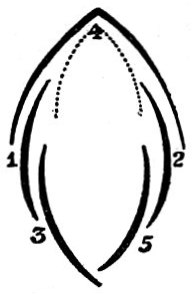 Flower diagram of a papilionaceous flower, showing vexillary aestivation: 1 and 2, the alae or wings; 3, a part of the carina or keel; 4, the vexillum or standard, which, in place of being internal, as marked by the dotted line, becomes external; 5, the remaining part of the keel. The order of the cycle is indicated by the figures.